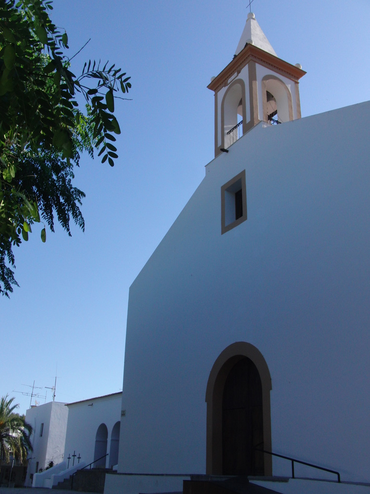 Church of San Juan, Ibiza, Spain